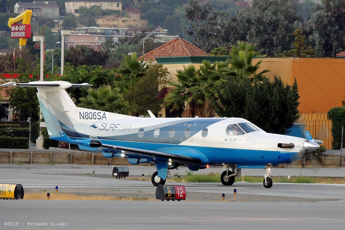 Surf Air PC12 N806SA at KSQL (San Carlos, CA) on July 4, 2013.